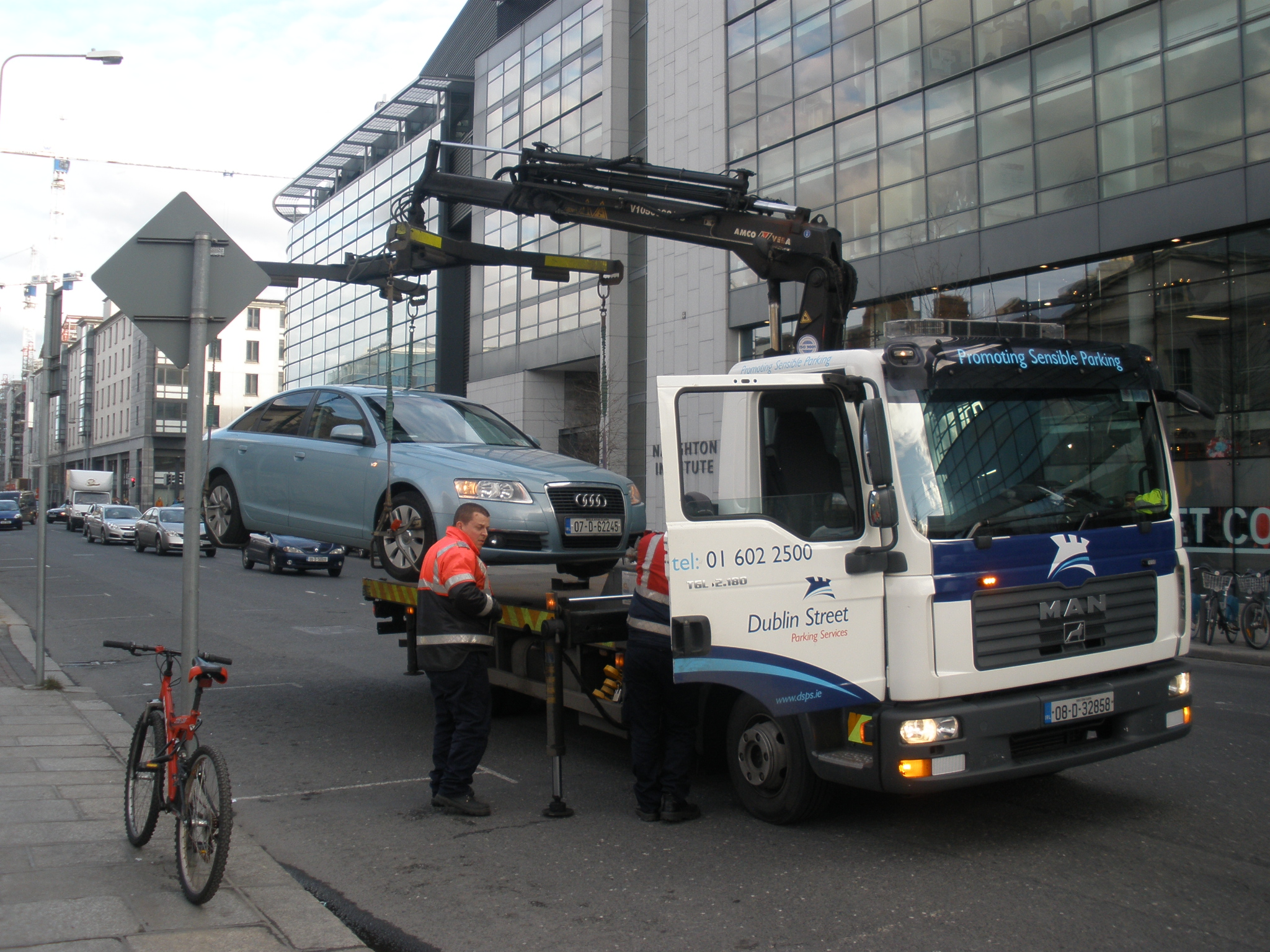 An illegally parked Audi car being removed from outside the Naughton Institute, home of CRANN, on Pearse Street in Dublin.